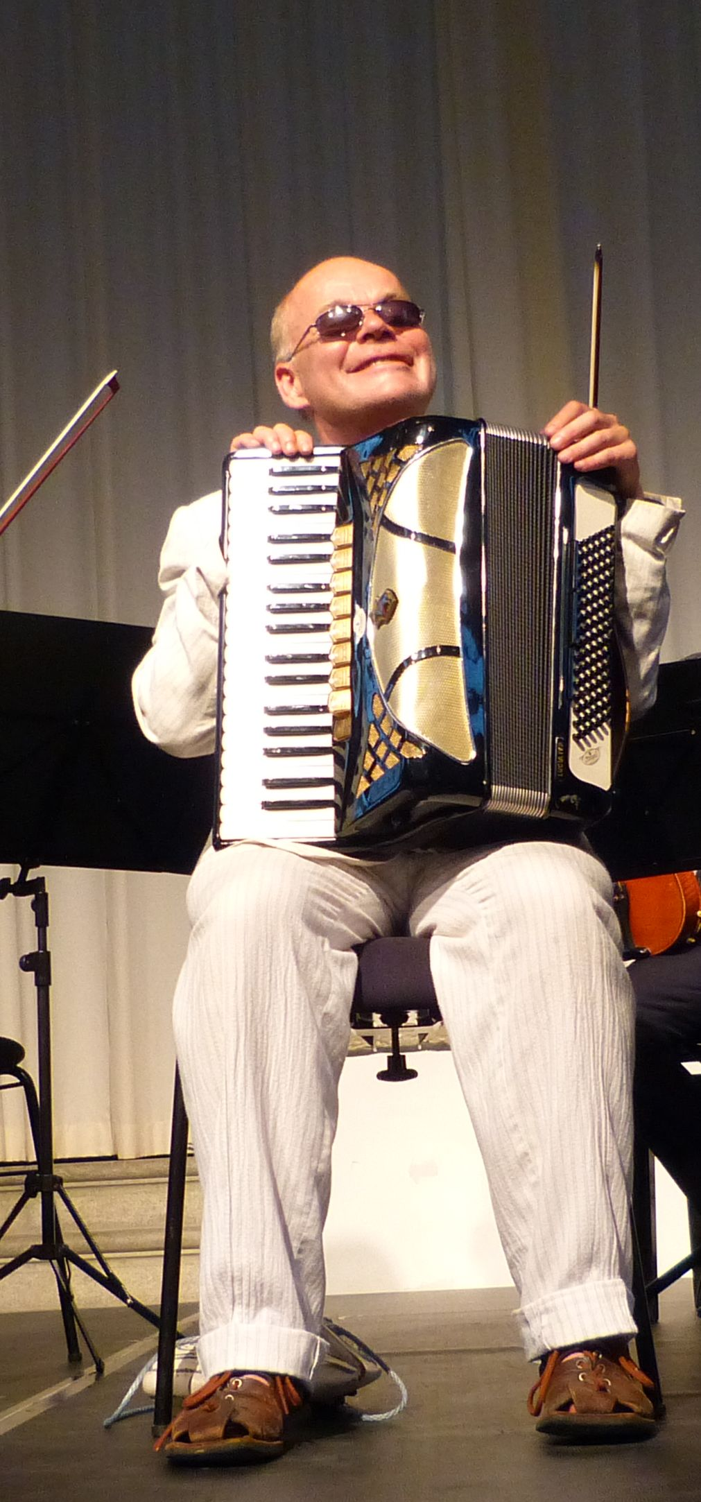 Otto Lechner at a concert in Boswil, Switzerland, in 2012